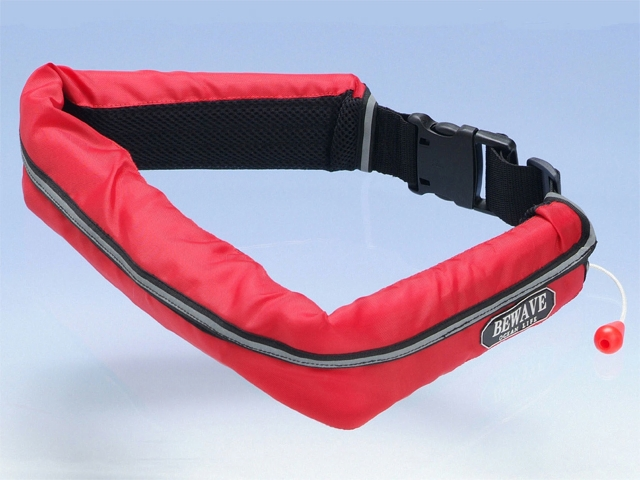 self-inflating life jacket-belt